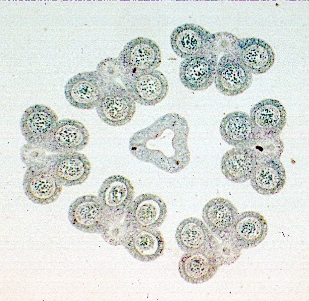 Light micrograph of a cross section of the anthers and style of a Lilium flower